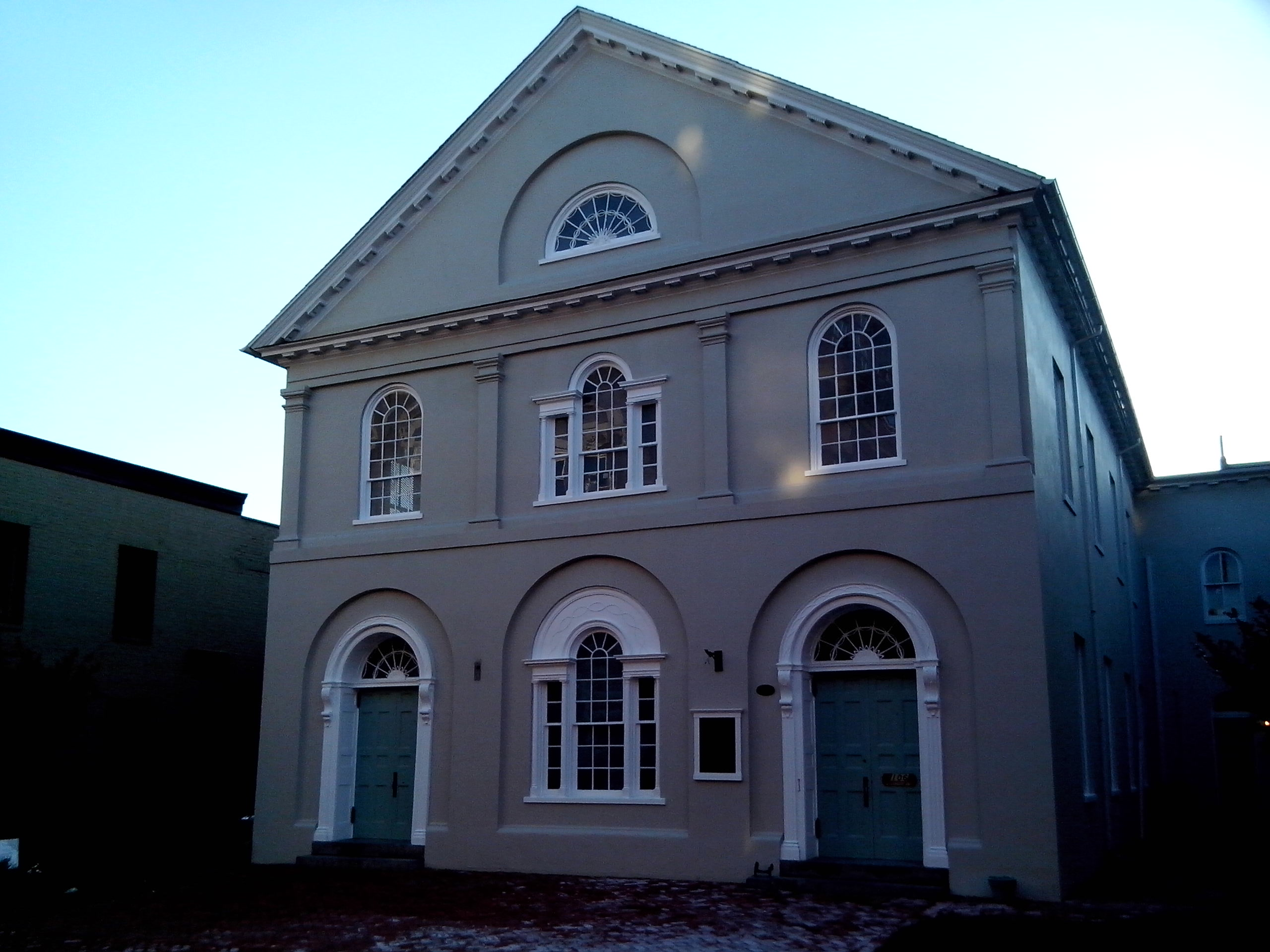 Erected 1813, Principal Parish Church until 1855